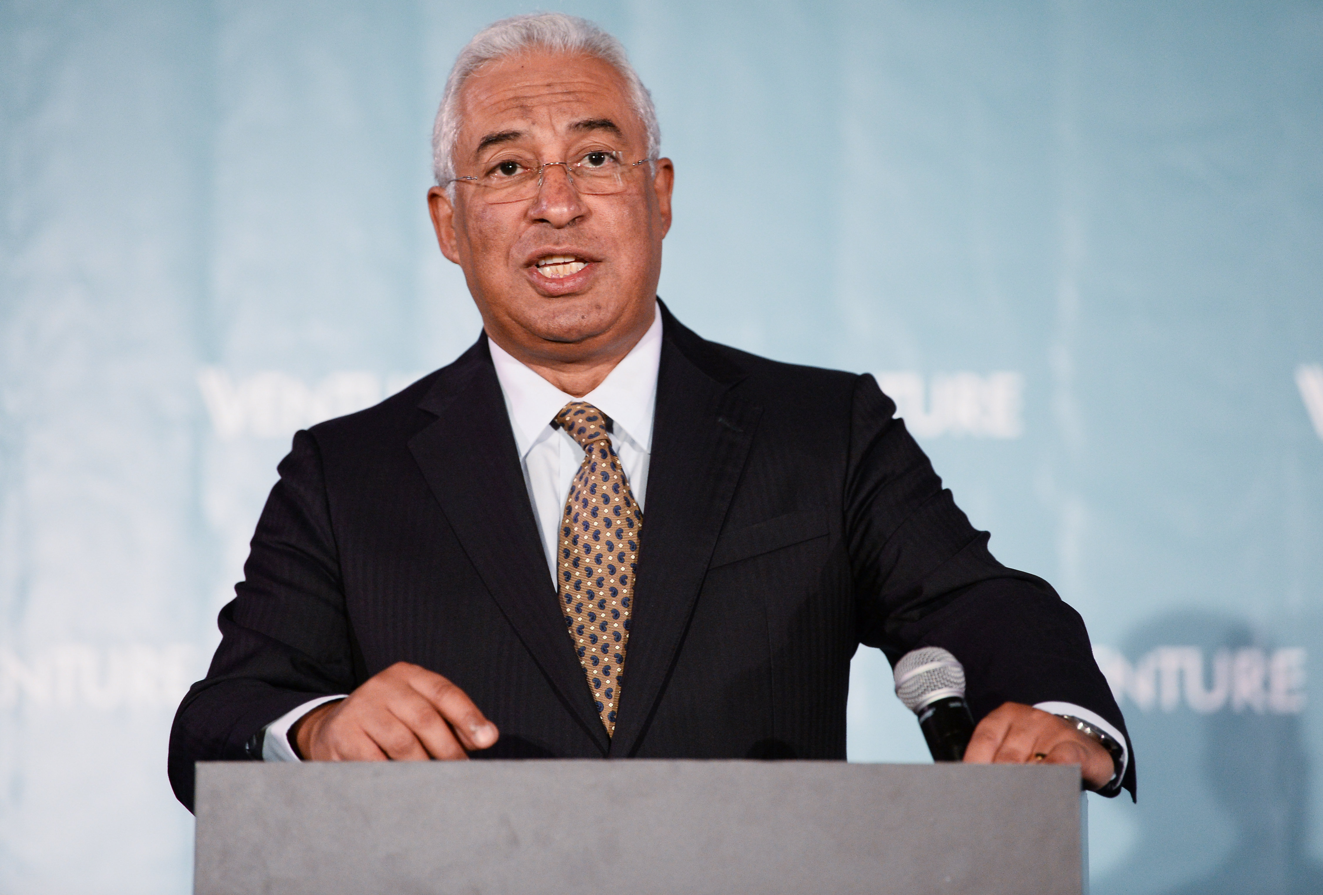 6 November 2017; António Costa, Prime Minister, Government of Portugal, at Venture Summit Content during Web Summit 2017 at Convento De Beato in Lisbon. Photo by Diarmuid Greene/Web Summit via Sportsfile